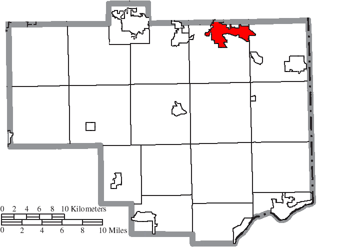 Map of the municipal and township boundaries of Columbiana County, Ohio, United States, as of the 2000 census, with the location of the city of Columbiana highlighted. Township borders are shown only in unincorporated areas in order to differentiate incorporated and unincorporated areas more clearly.